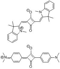 squaraine dyes derived from aniline and 1,2,3,3-tetramethyl-3H-indolium salts